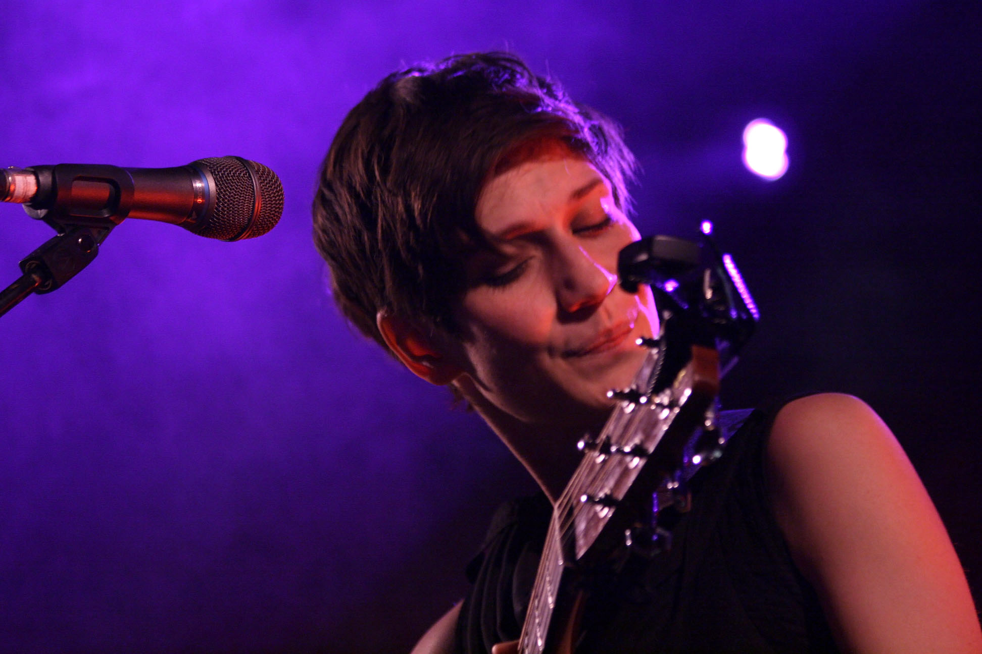 The Alin Coen Band - concert at the cultural center WUK in Vienna.